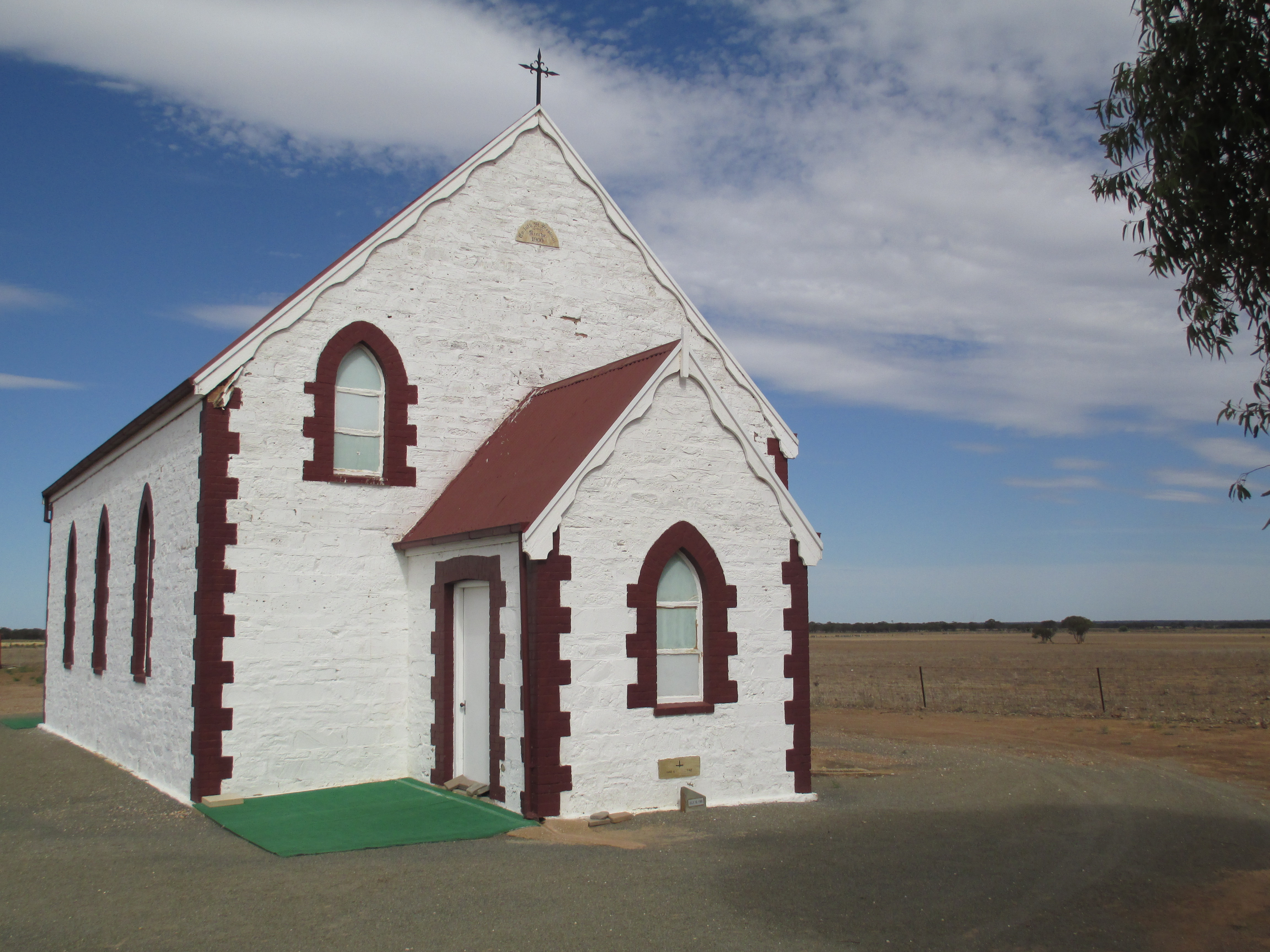 St Stephens Church